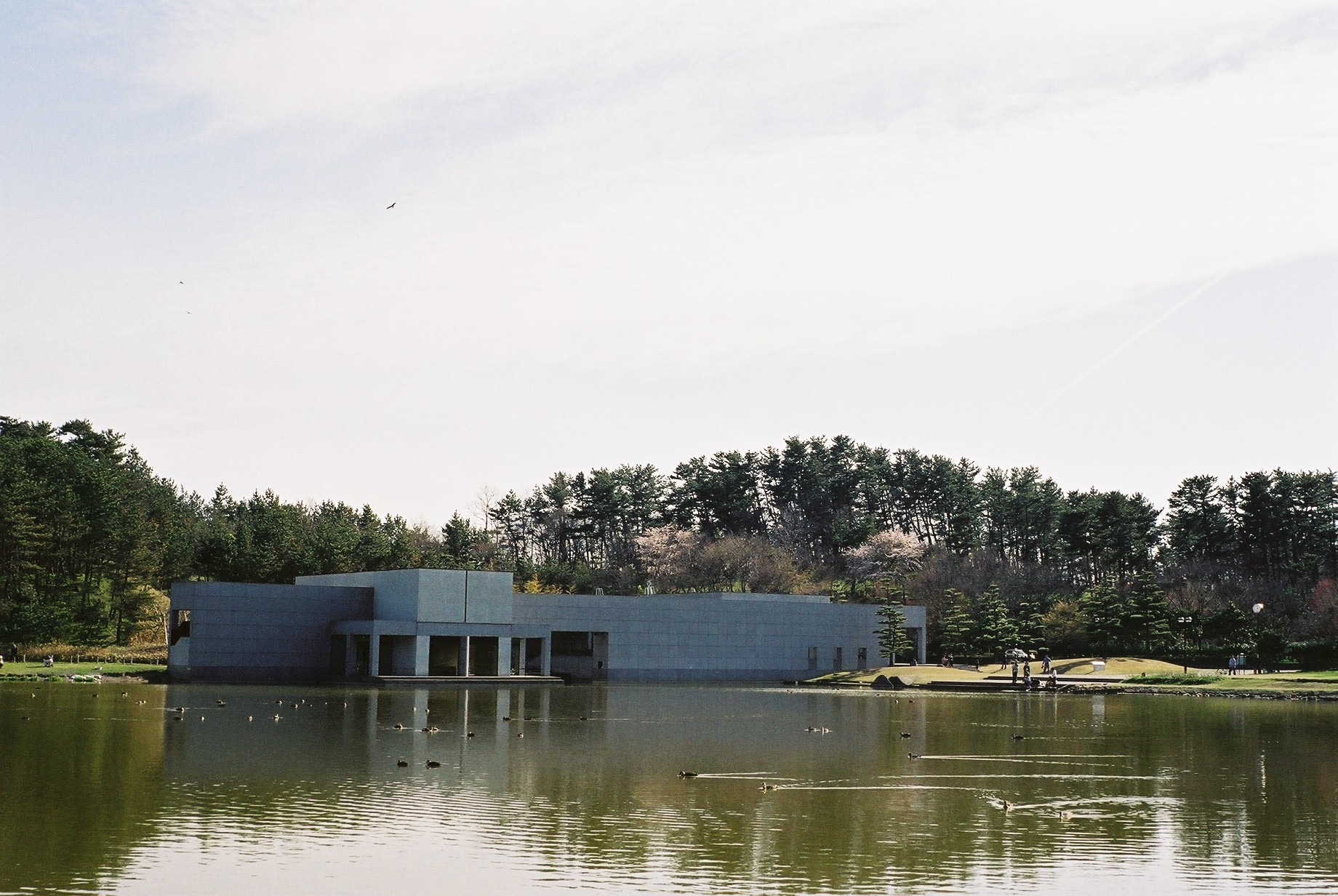 Ken Domon Museum of Photography